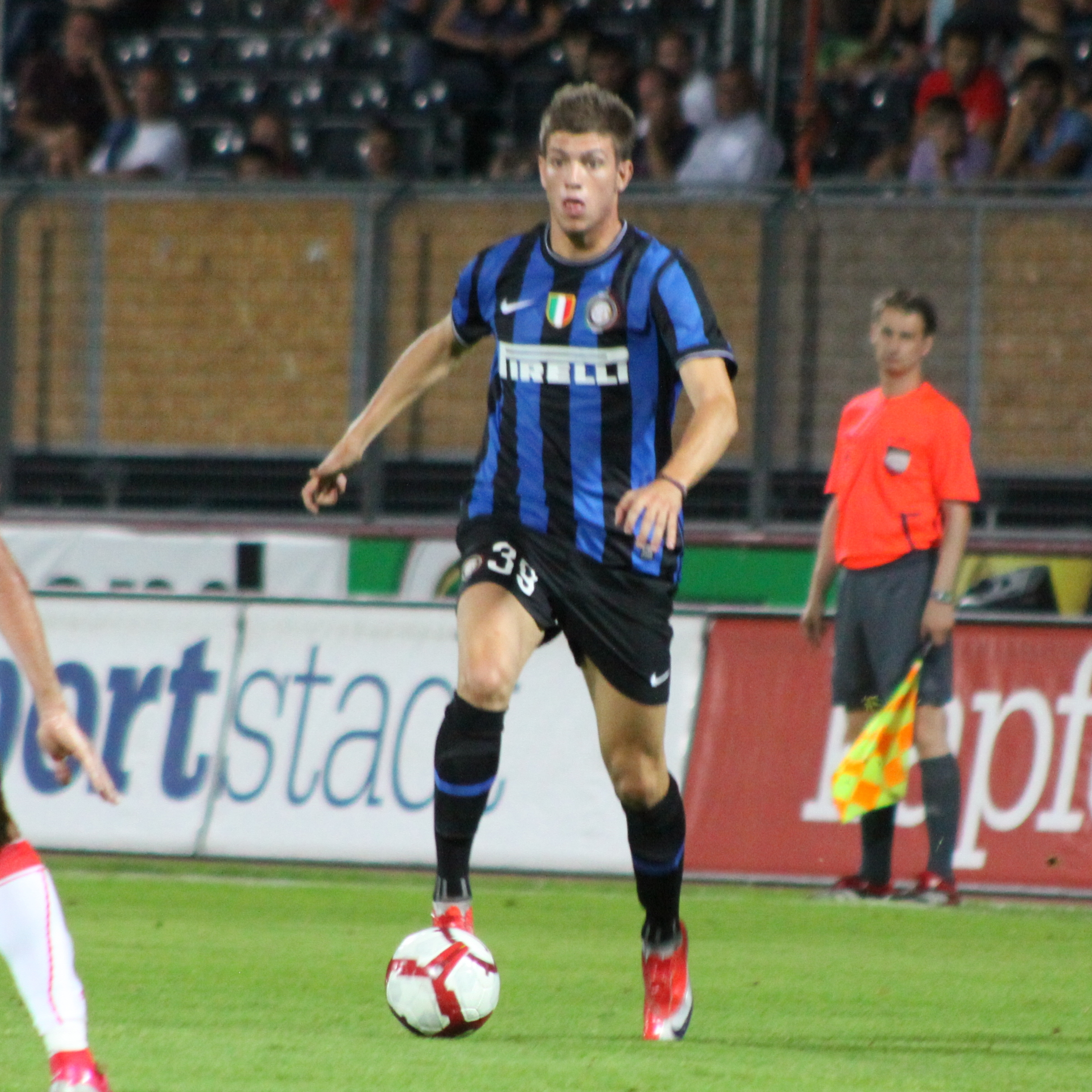 Davide Santon - F.C. Internazionale Milano